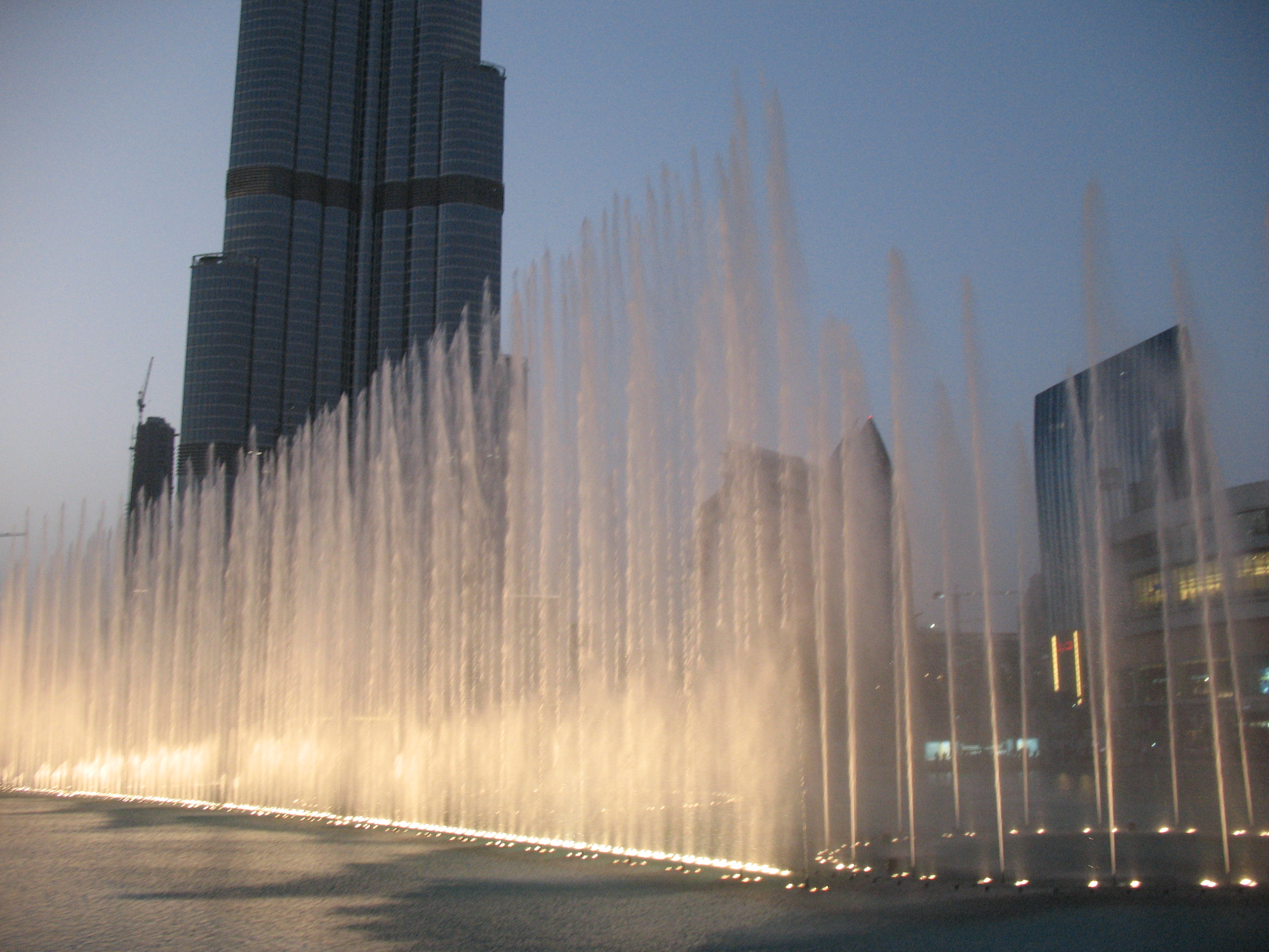 The Dubai Fountain